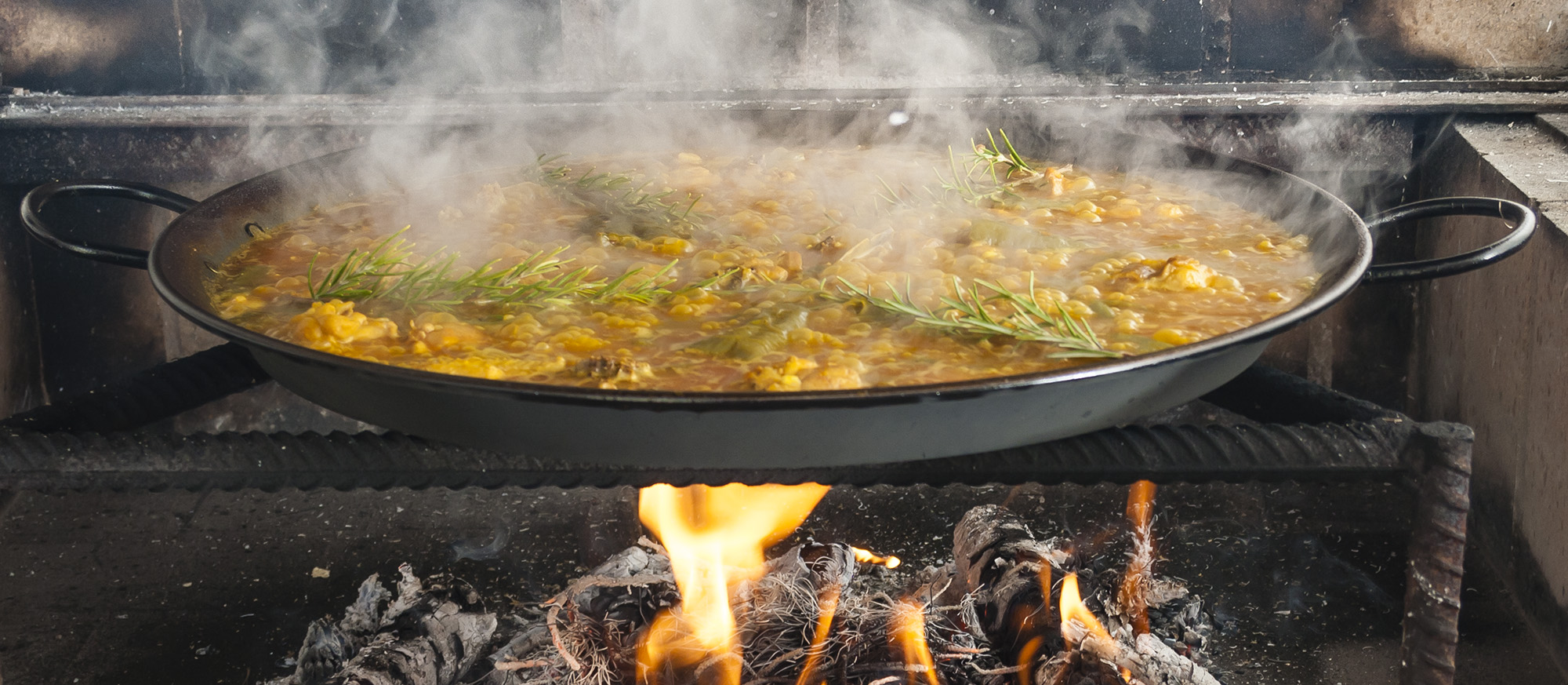 Making a Paella : cooking paella with rosemary